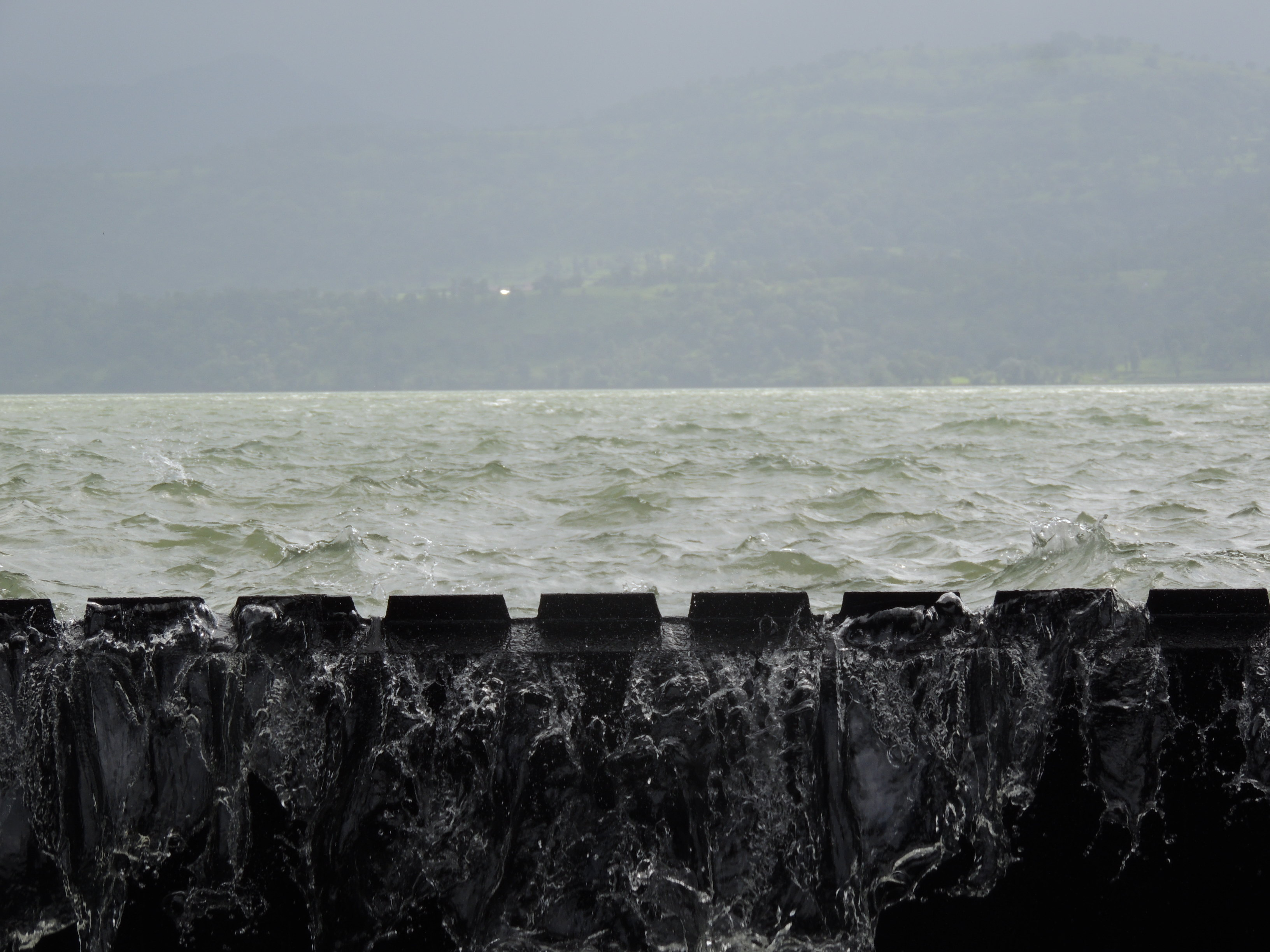 water falling from gates of bhandardara dam, maharashtra